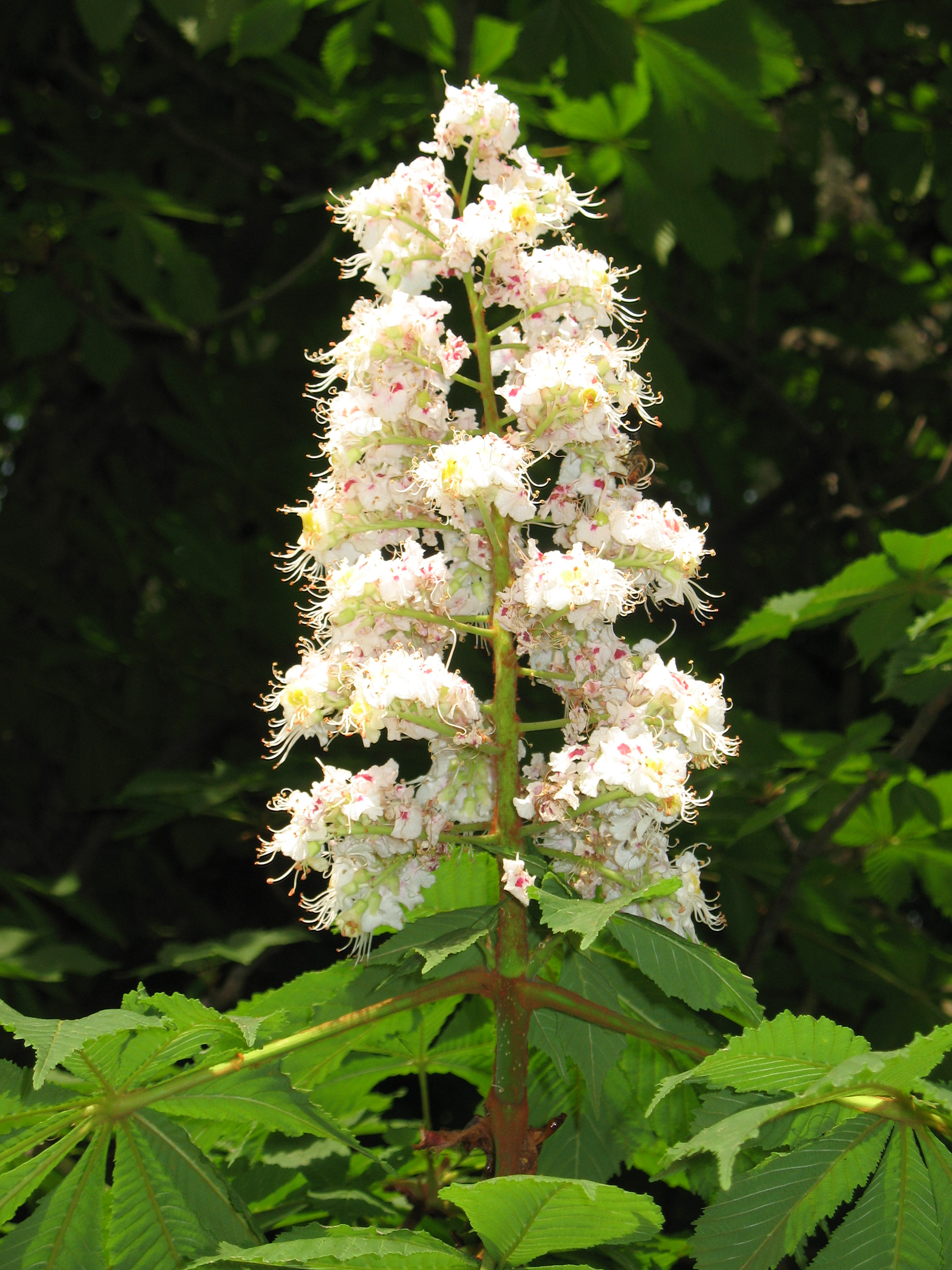 Horse Chestnut flower Aesculus hippocastanum leaves in Kharkov City. May, 2010